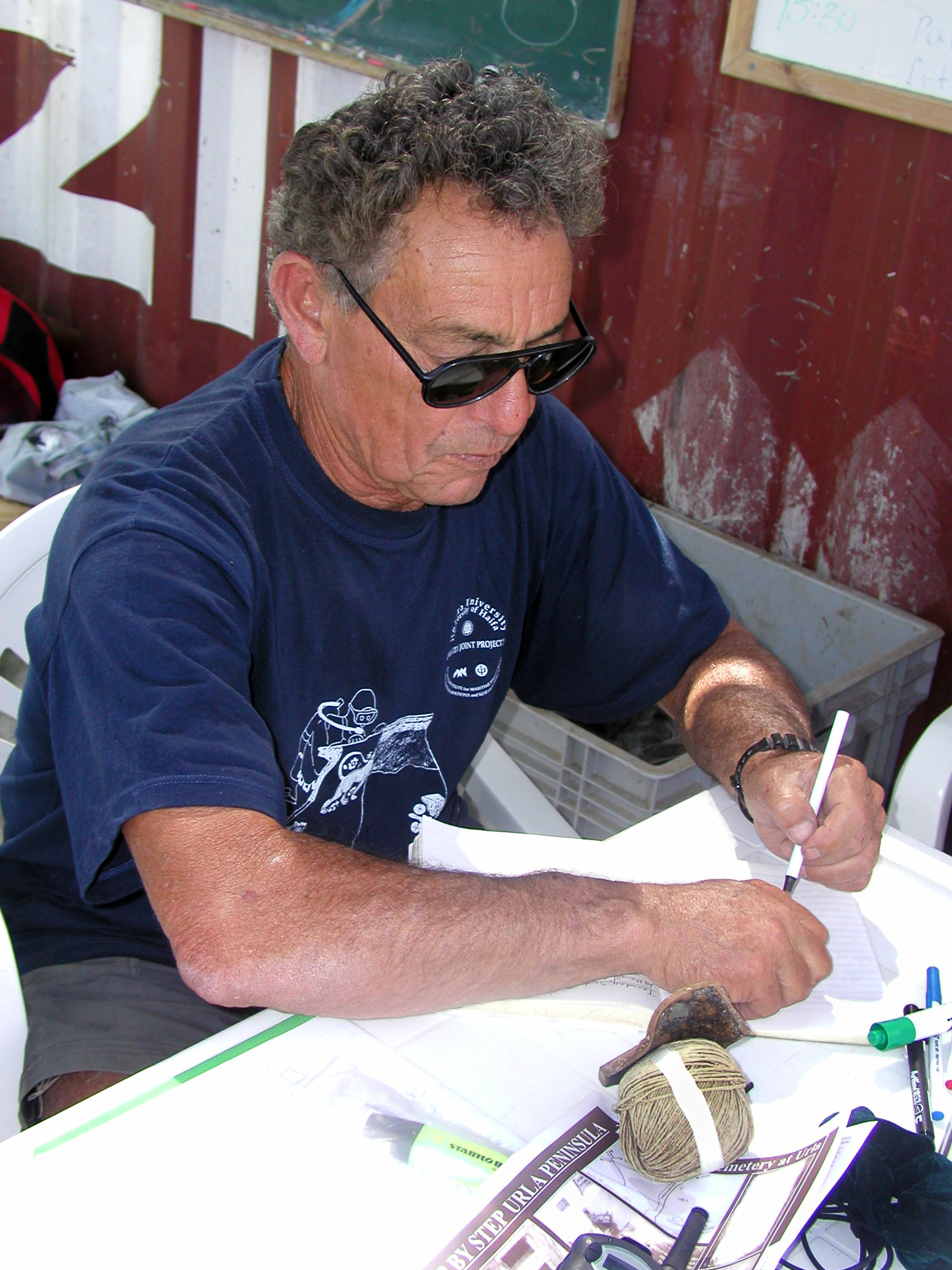 Avner Raban -Israeli Marine Archaeology - In Limantepe Turkey אבנר רבן, ארכאולוג ימי, צהחוג לציוויליזציות ימיות באוניברסיטת חיפה צילומים בחפירה משנת 2003 בלימנטפה טורקיה This work is free and may be used by anyone for any purpose. If you wish to use this content, you do not need to request permission as long as you follow any licensing requirements mentioned on this page.